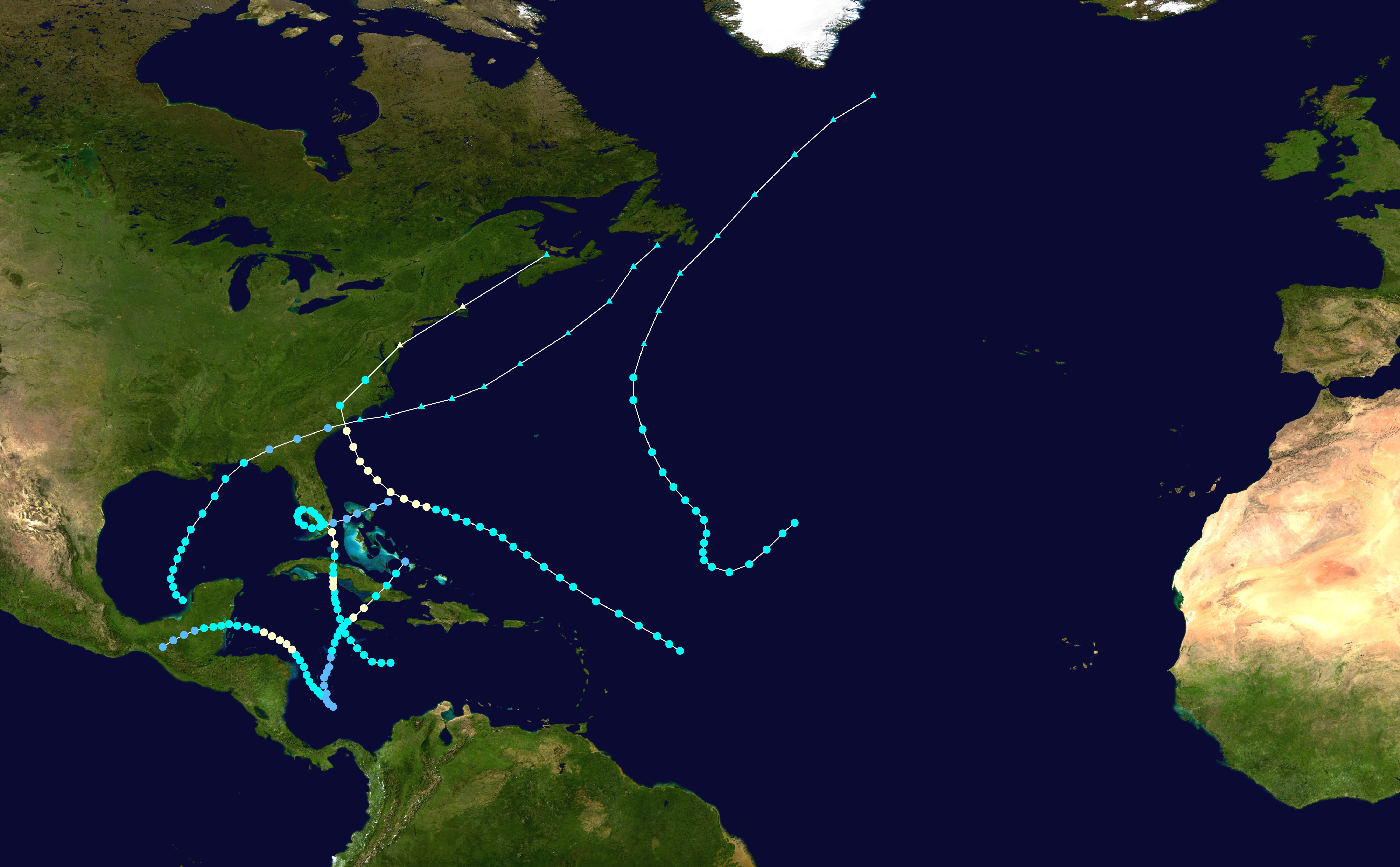 This map shows the tracks of all tropical cyclones in the 1904 Atlantic hurricane season. The points show the location of each storm at 6-hour intervals. The colour represents the storm's maximum sustained wind speeds as classified in the Saffir-Simpson Hurricane Scale (see below), and the shape of the data points represent the type of the storm. Saffir–Simpson scale Tropical depression≤38 mph≤62 km/h Category 3111–129 mph178–208 km/h Tropical storm39–73 mph63–118 km/h Category 4130–156 mph209–251 km/h Category 174–95 mph119–153 km/h Category 5≥157 mph≥252 km/h Category 296–110 mph154–177 km/h Unknown Storm type Tropical cyclone Subtropical cyclone Extratropical cyclone / Remnant low / Tropical disturbance / Monsoon depression